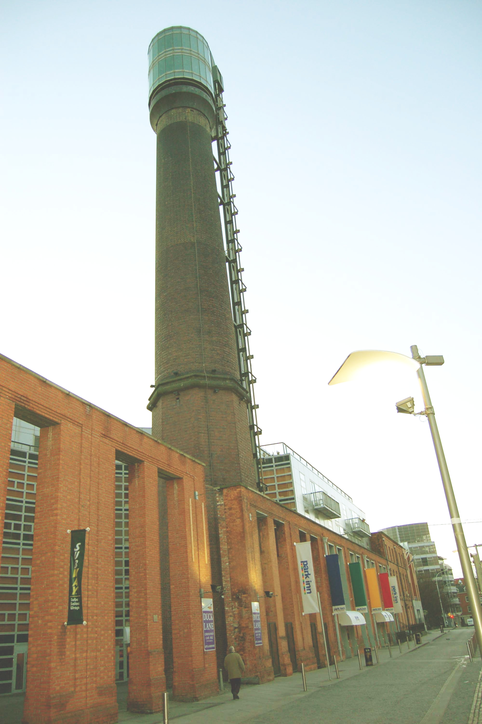 Smithfield Chimney. Photograph taken by uploader, December 2006.